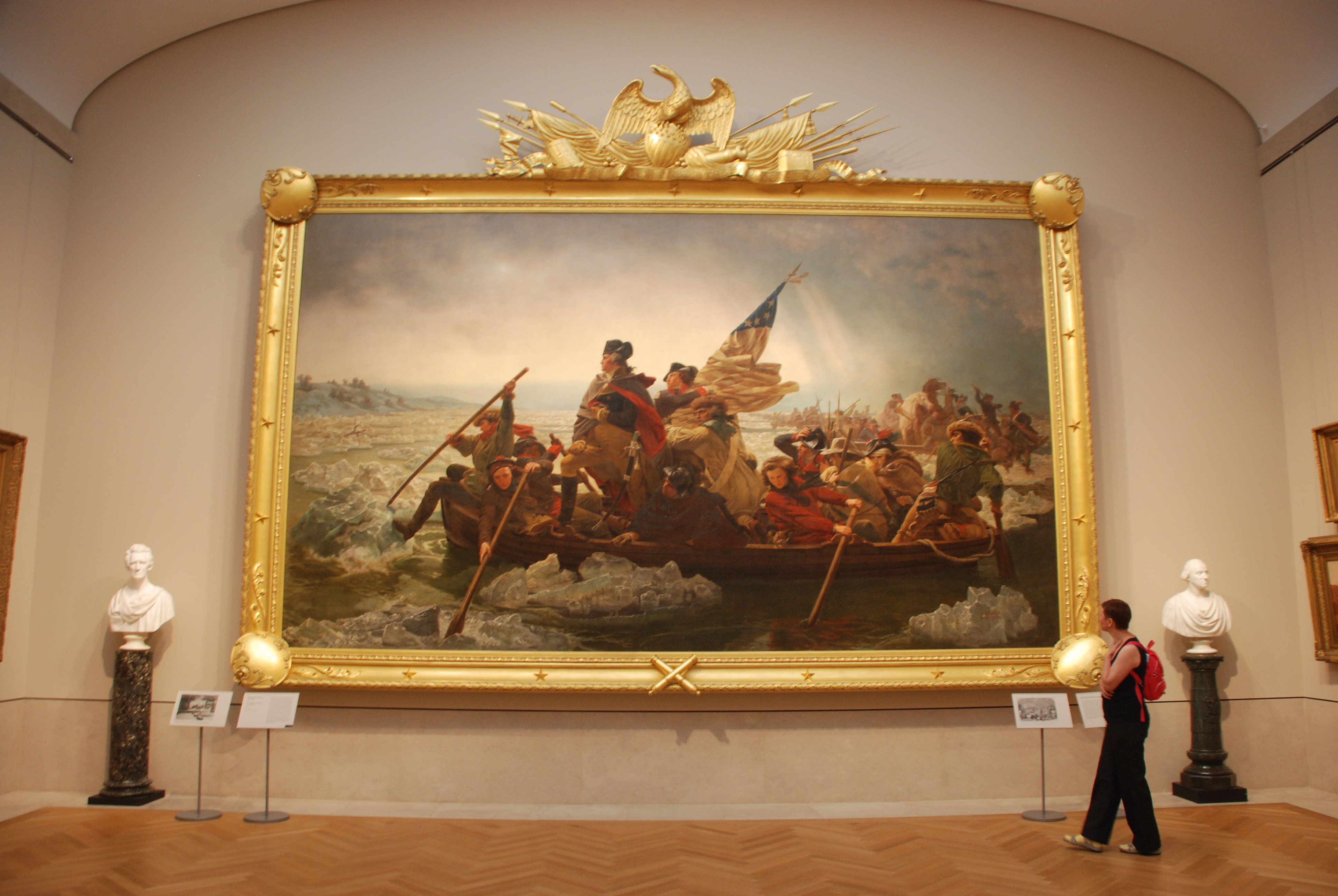 Metropolitan Museum of Art, painting "Washington Crossing the Delaware" by Emanuel Leutze